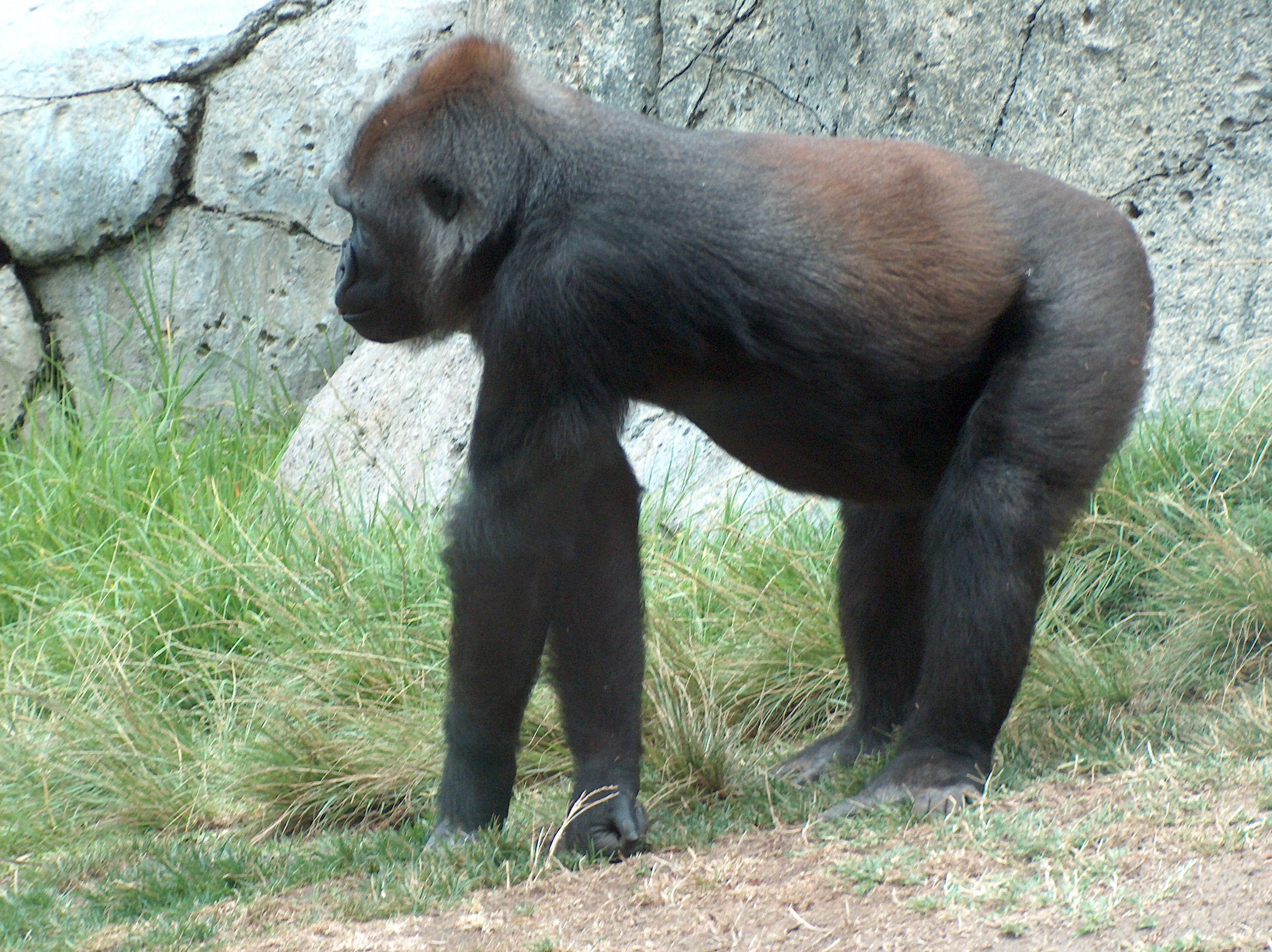 Gorilla at the San Diego Zoo. The photo was taken through glass, so if anyone wants to photoshop it to remove artifacts of the glass, please be my guest. Photo taken by User:Mike R on 8 August, 2005.